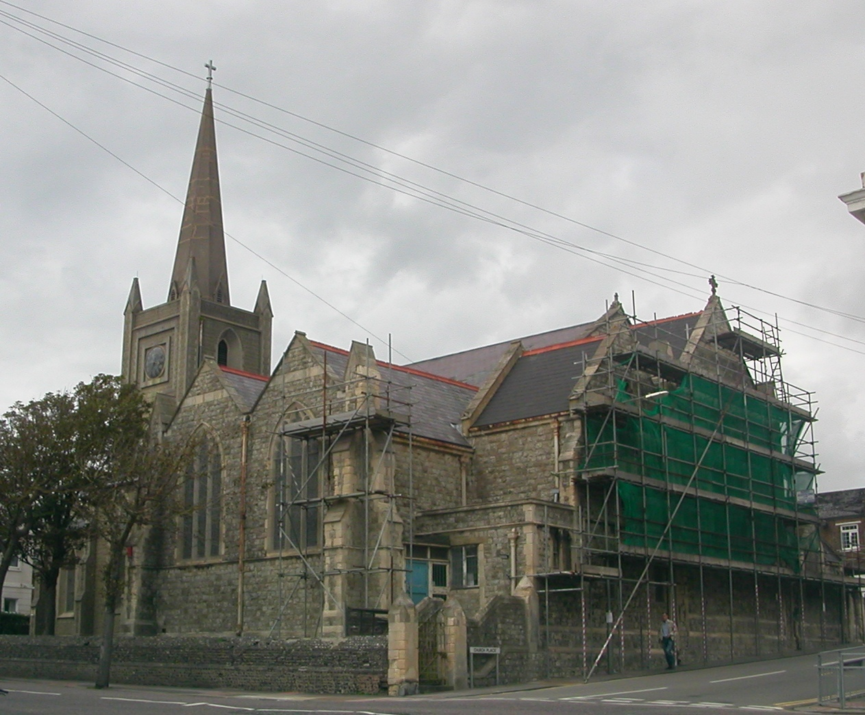 The closed St Mark's Church, Kemptown, Brighton; looking NW.